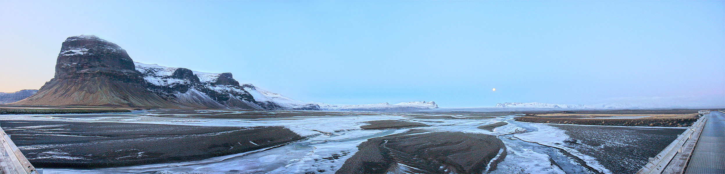 Lómagnú and Skeiðarárjökull from a bridge over Núpsvötn, November 24 17:00 Iceland, November 2007 Photo by me user:debivort (or my friend who has given me permission to freely license our photos from Iceland)